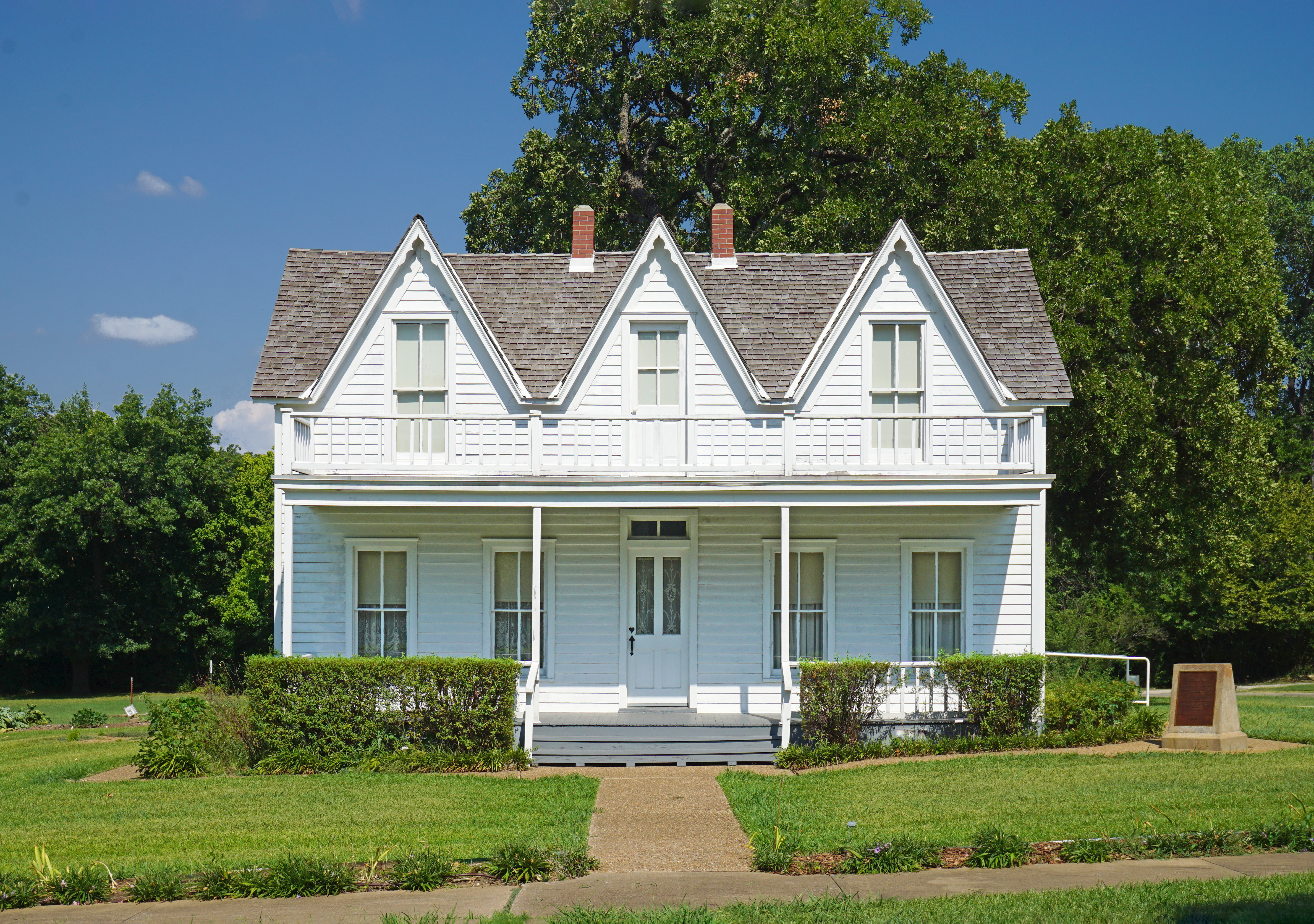 The Eisenhower Birthplace State Historic Site in Denison, Texas (United States).